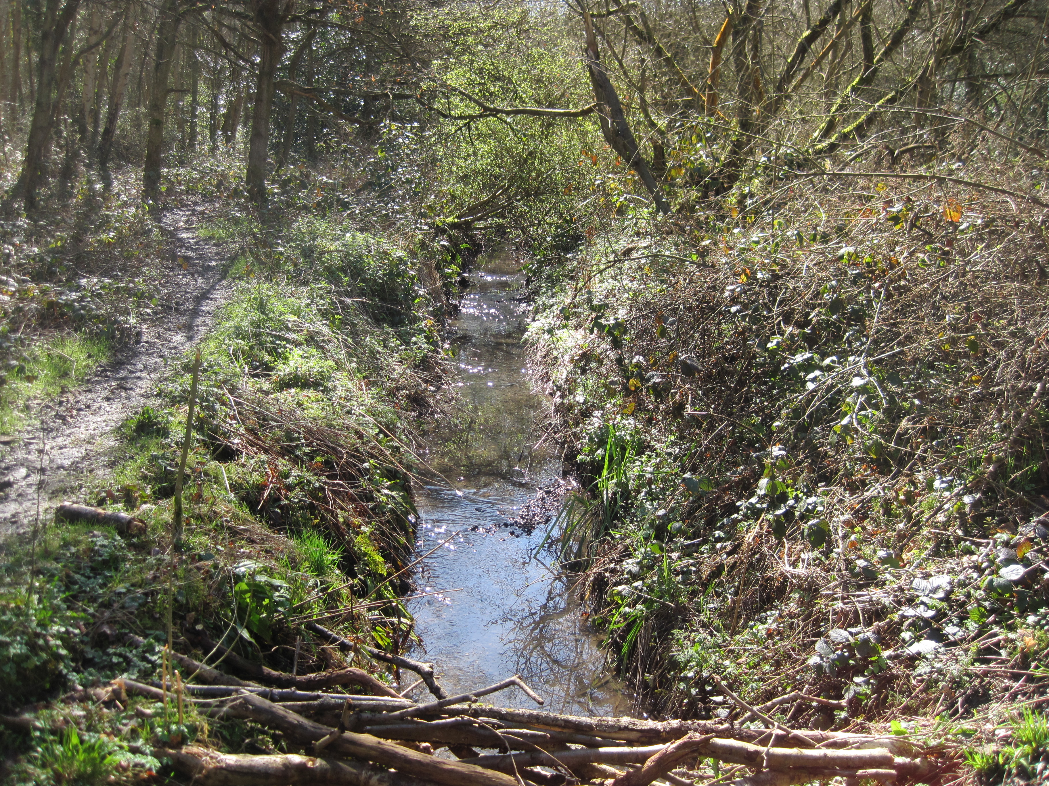 Kyd Brook in Crofton Wood SSSI, Bromley, London